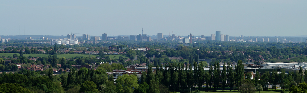 Birmingham seen from the Lickey Hills. The Longbridge plant can be seen in the foreground.